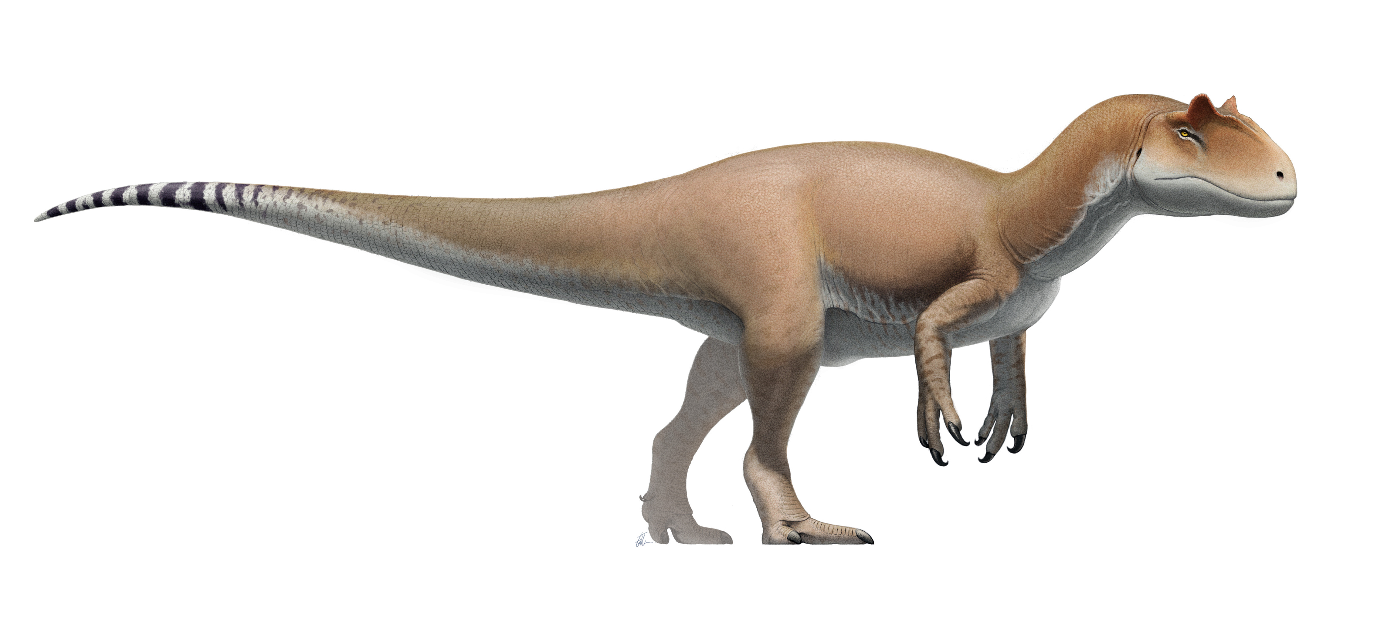 Allosaurus fragilis reconstruction by Fred Wierum. Proportions align with Hartman's reconstruction of UUVP 6000.